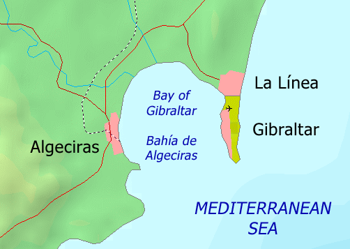 Map of the Bay of Gibraltar Derived and adapted from open-source mapping data sourced from